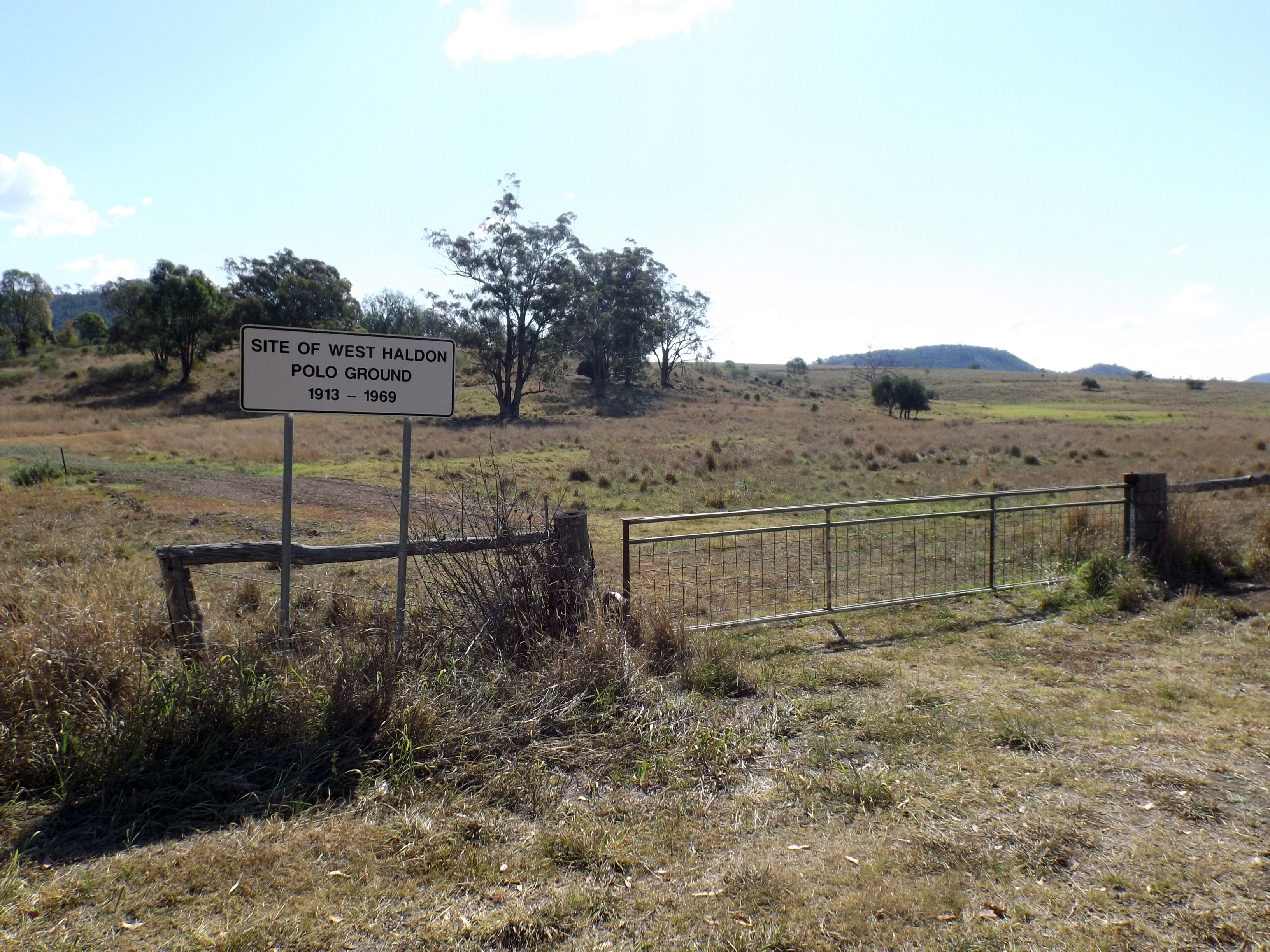 Photo of former polo ground West Haldon along Gatton Clifton Road at West Haldon, Queensland, Australia.